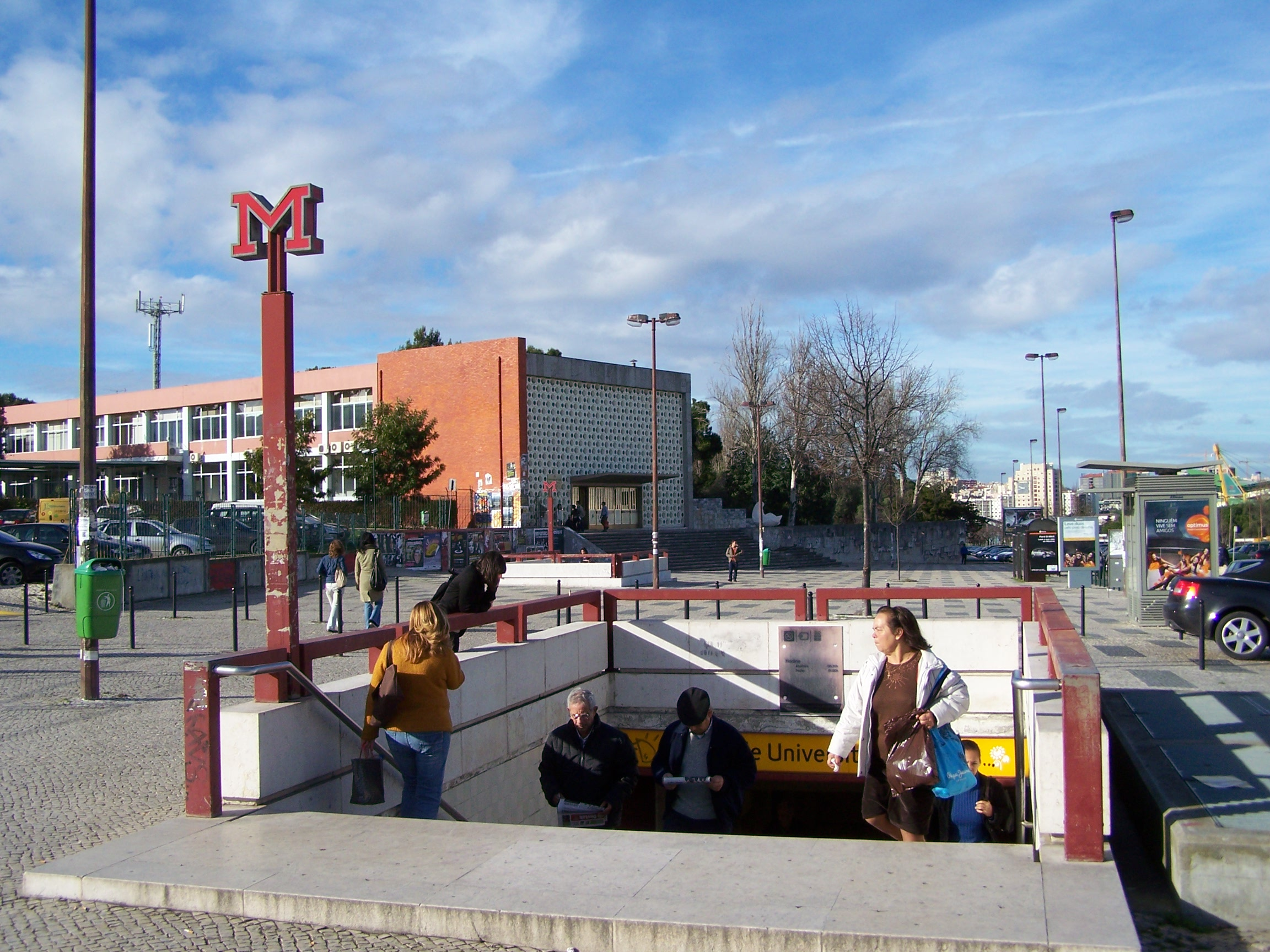 Entrance to Lisbon's underground station Cidade Universitária, yellow line